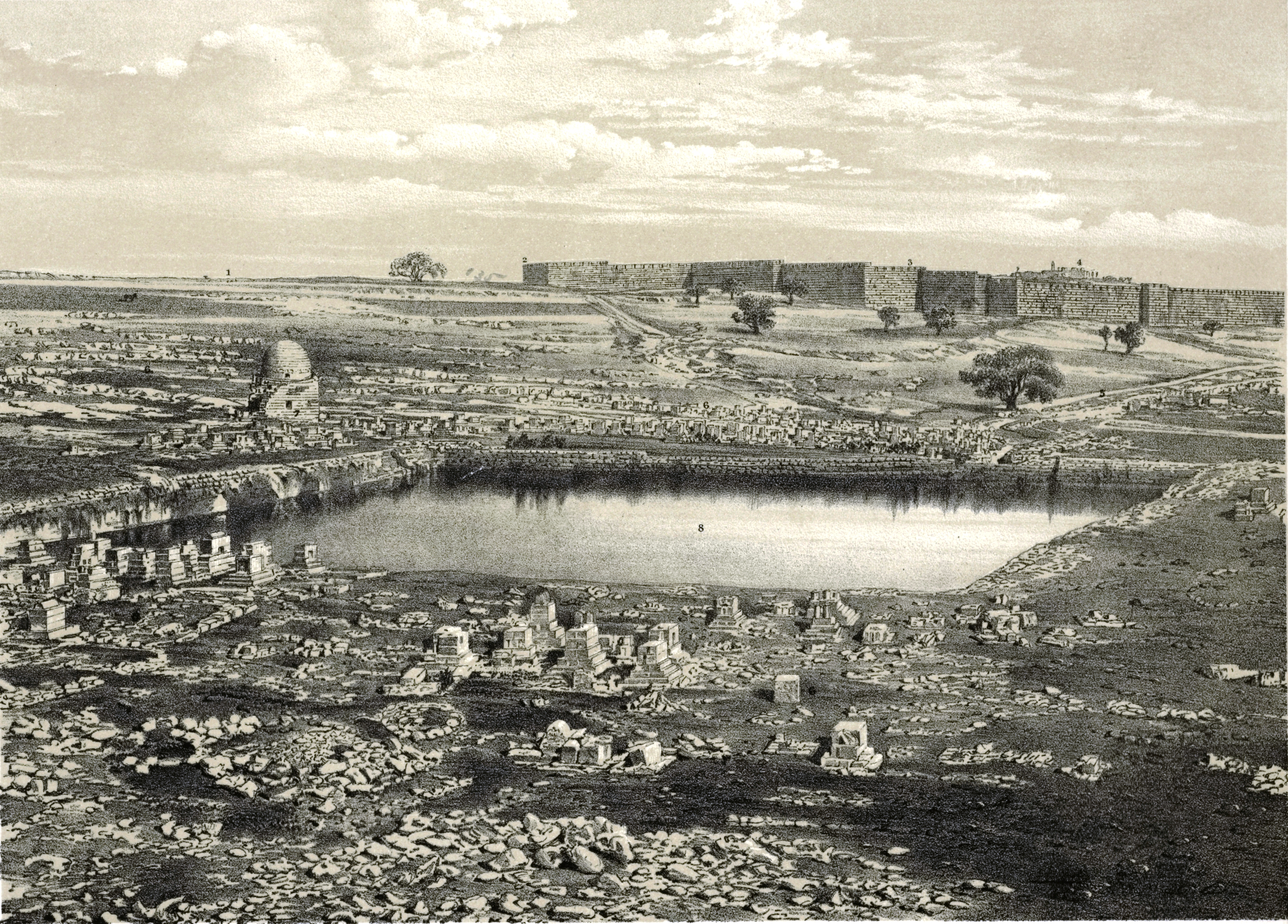 Pool of Mamillah, or Serpents' Pool (according to Josephus), near the monument of Herod on the west of the city.